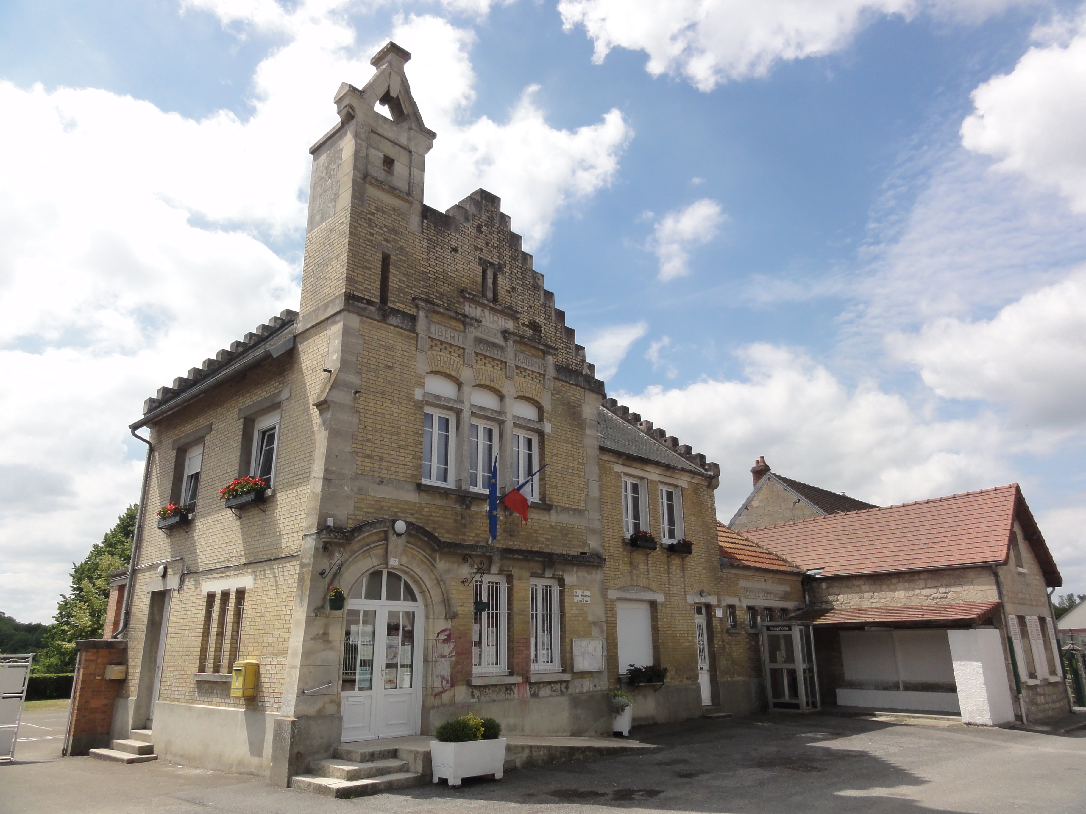 Juvigny (Aisne) mairie